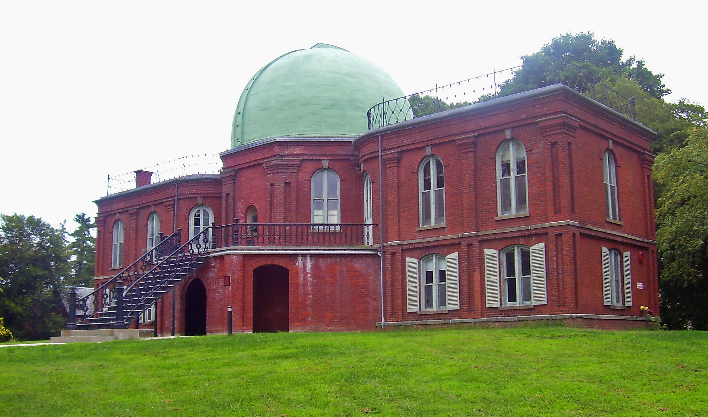 Vassar College Observatory in in Poughkeepsie, NY, USA, a National Historic Landmark